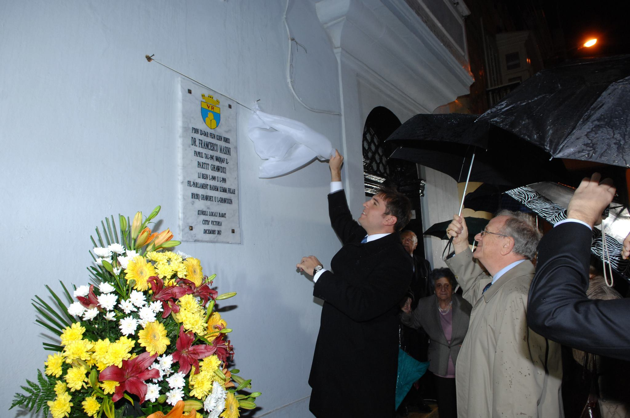 Unveiling of Plaque commemorating Dr. Francesco Masini